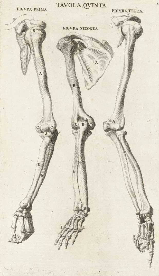 Anatomía de Bernardino Genga